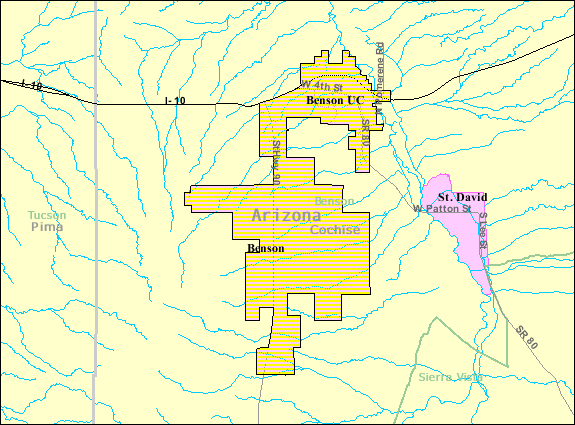 Map of Benson, a city in Cochise County, Arizona, United States, with its boundaries at the time of the 2000 census.